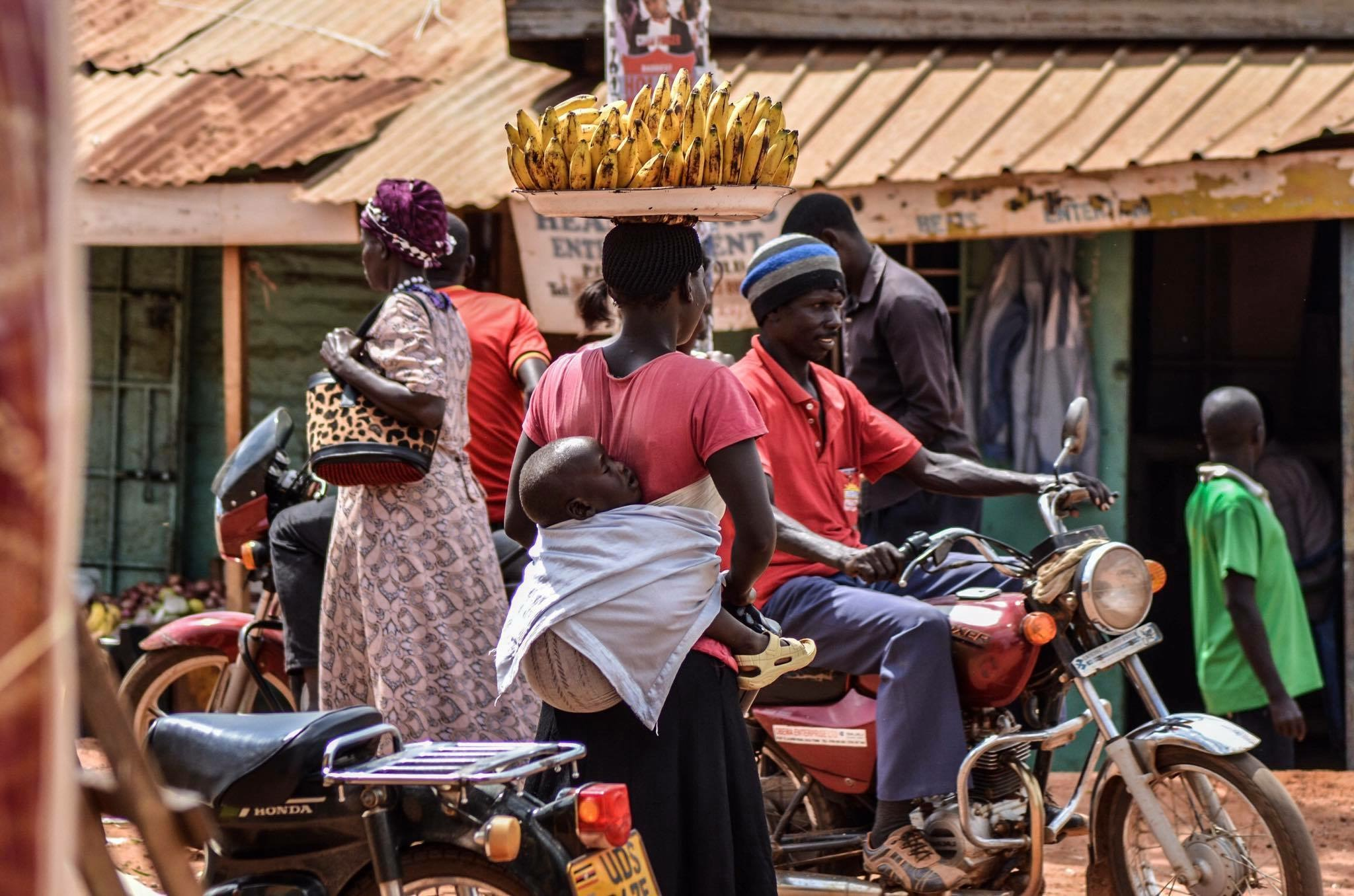 A mother carries her child as she vends Yellow bananas (Bogoya) in the scorching heat on The streets of Gulu town This is an image of "African people at work" from Uganda